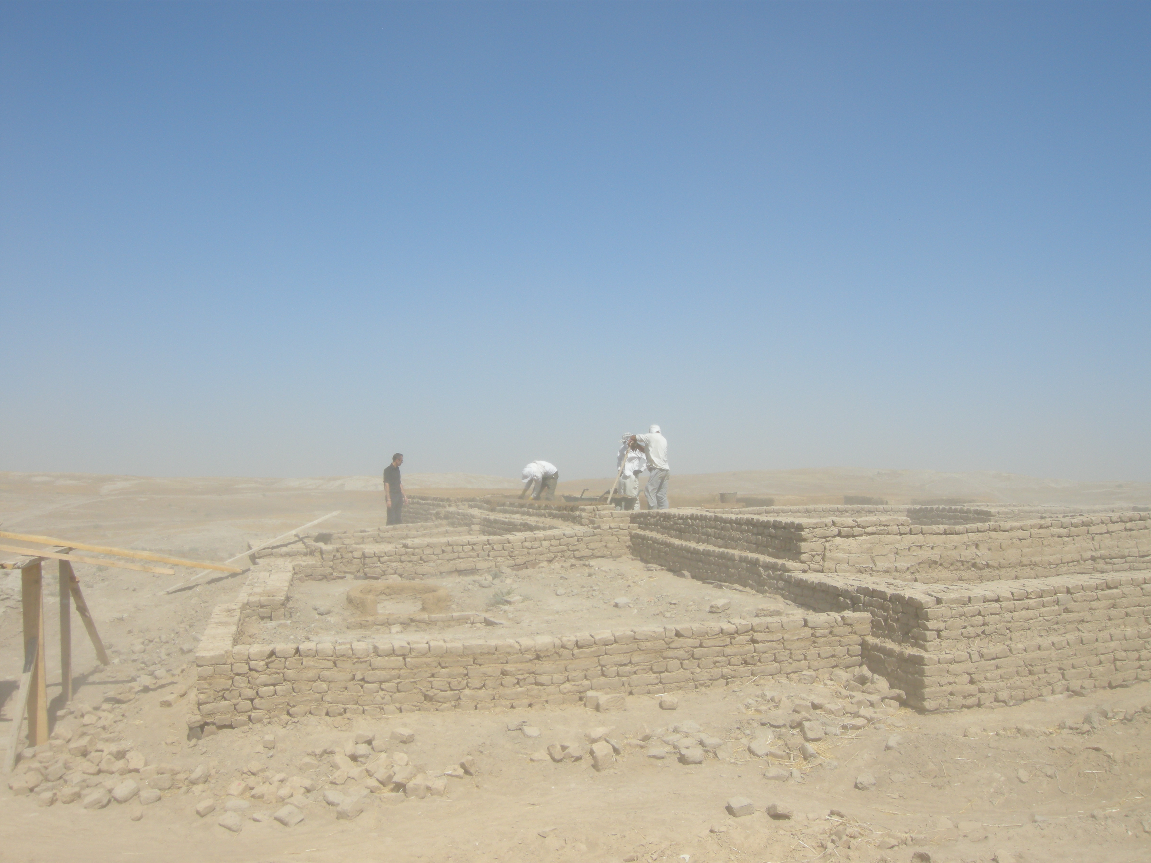 Italian author Ovidio Guaita visiting the archeological site of Otrar in south Kazakhstan during a sand storm.